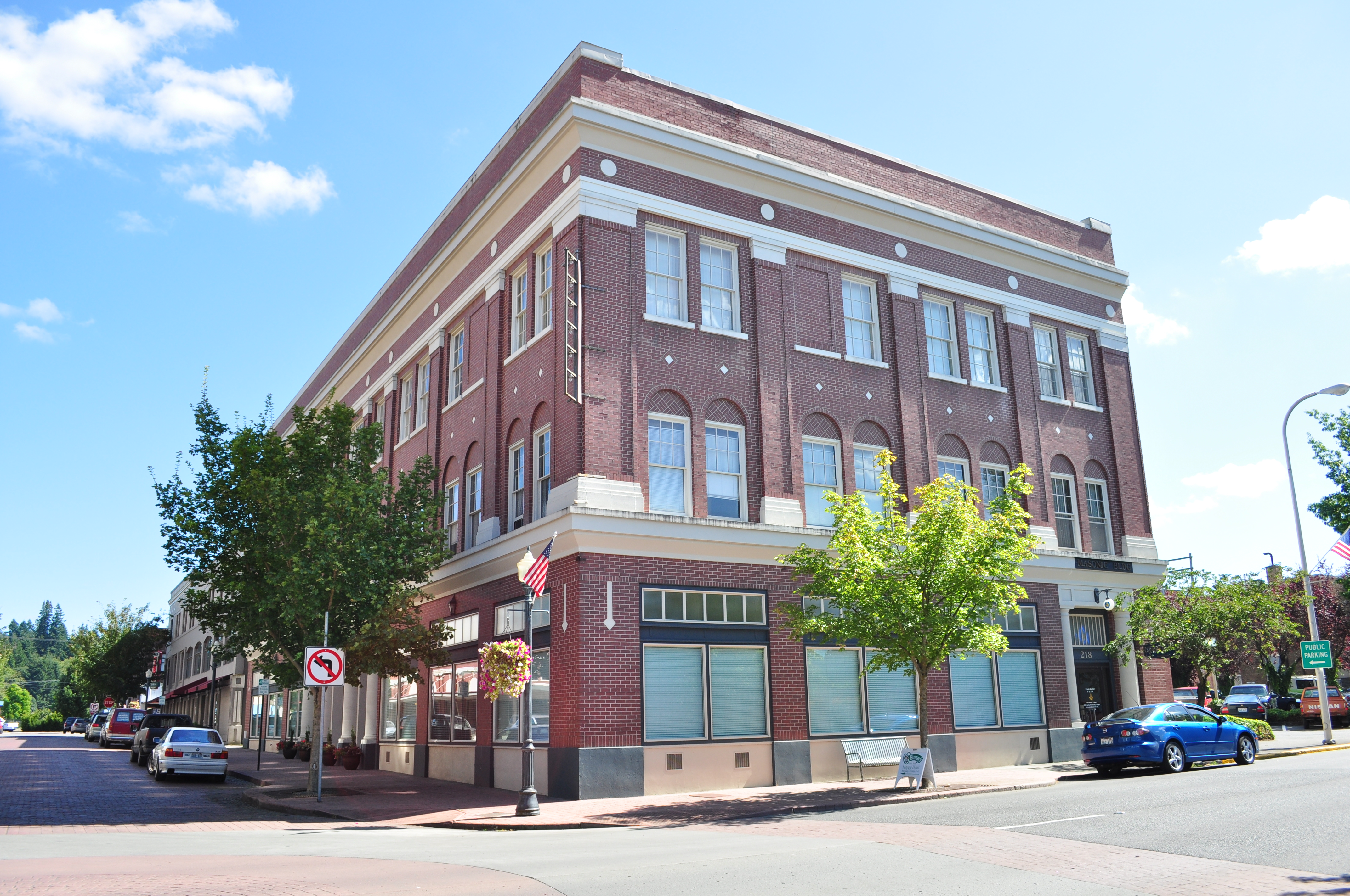 Masonic Building (Masonic Lodge No. 63), 116 West Magnolia Street (corner Pearl Street), Centralia, Washington, USA. A contributing property of the Centralia Downtown Historic District, which is listed on the National Register of Historic Places.